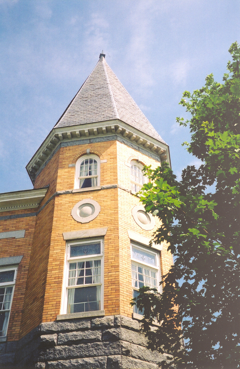 Front of the Haskell Free Library and Opera House, Derby Line VT/Stanstead QC. Photographed in July 2002 by GridlockJoe.